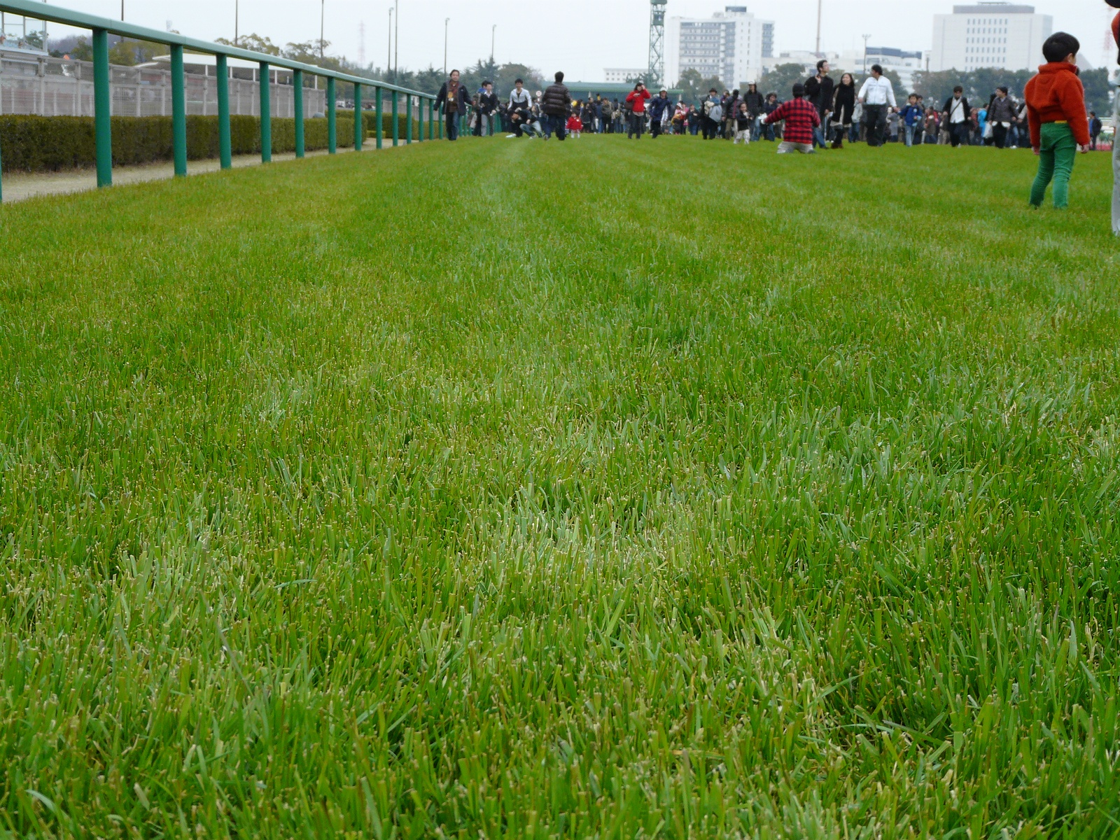 Chukyo_Racetrack_12